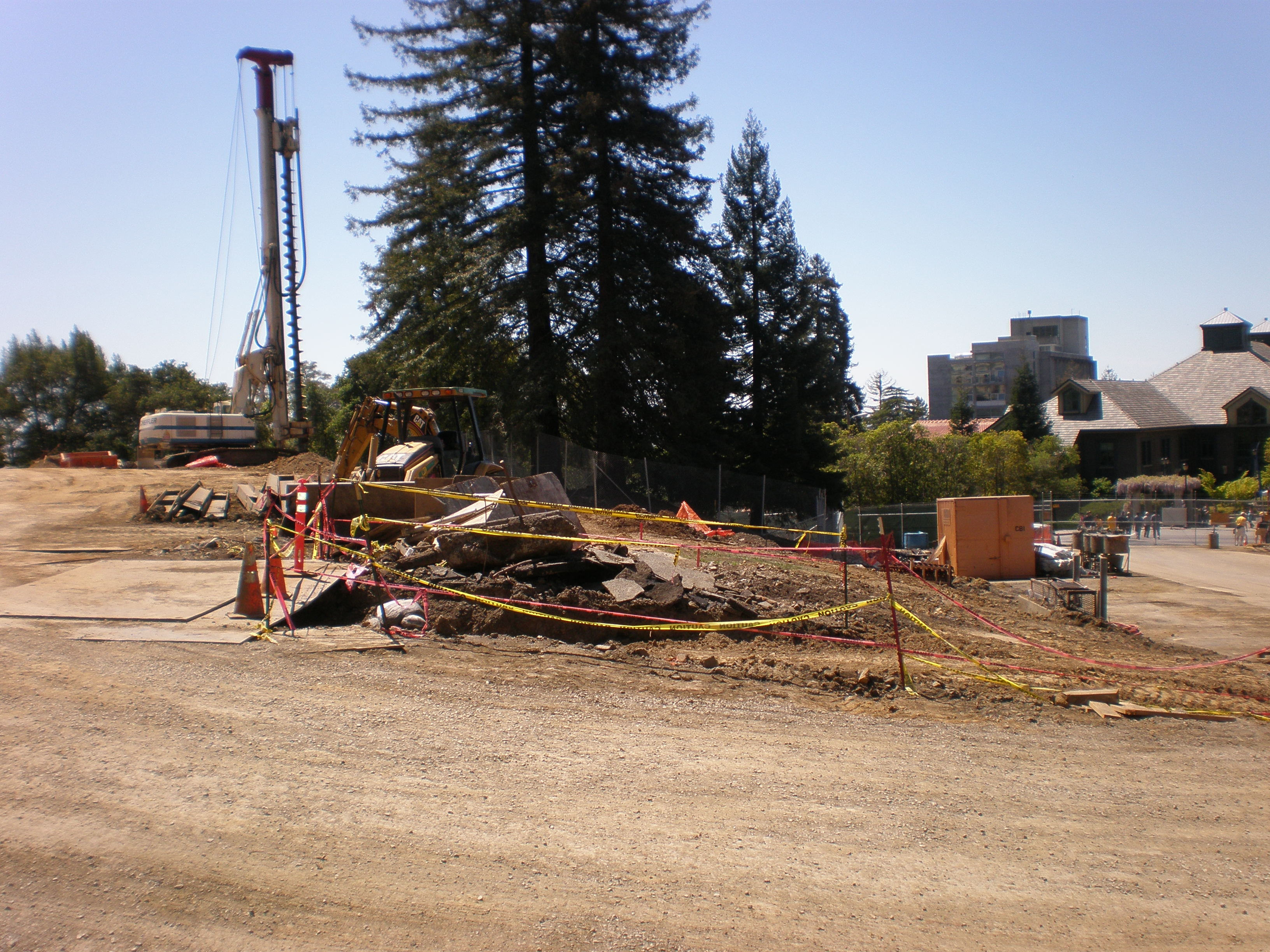 Seismic improvement work being undertaken on the west side of California Memorial Stadium in Berkeley, California. See here for more info.